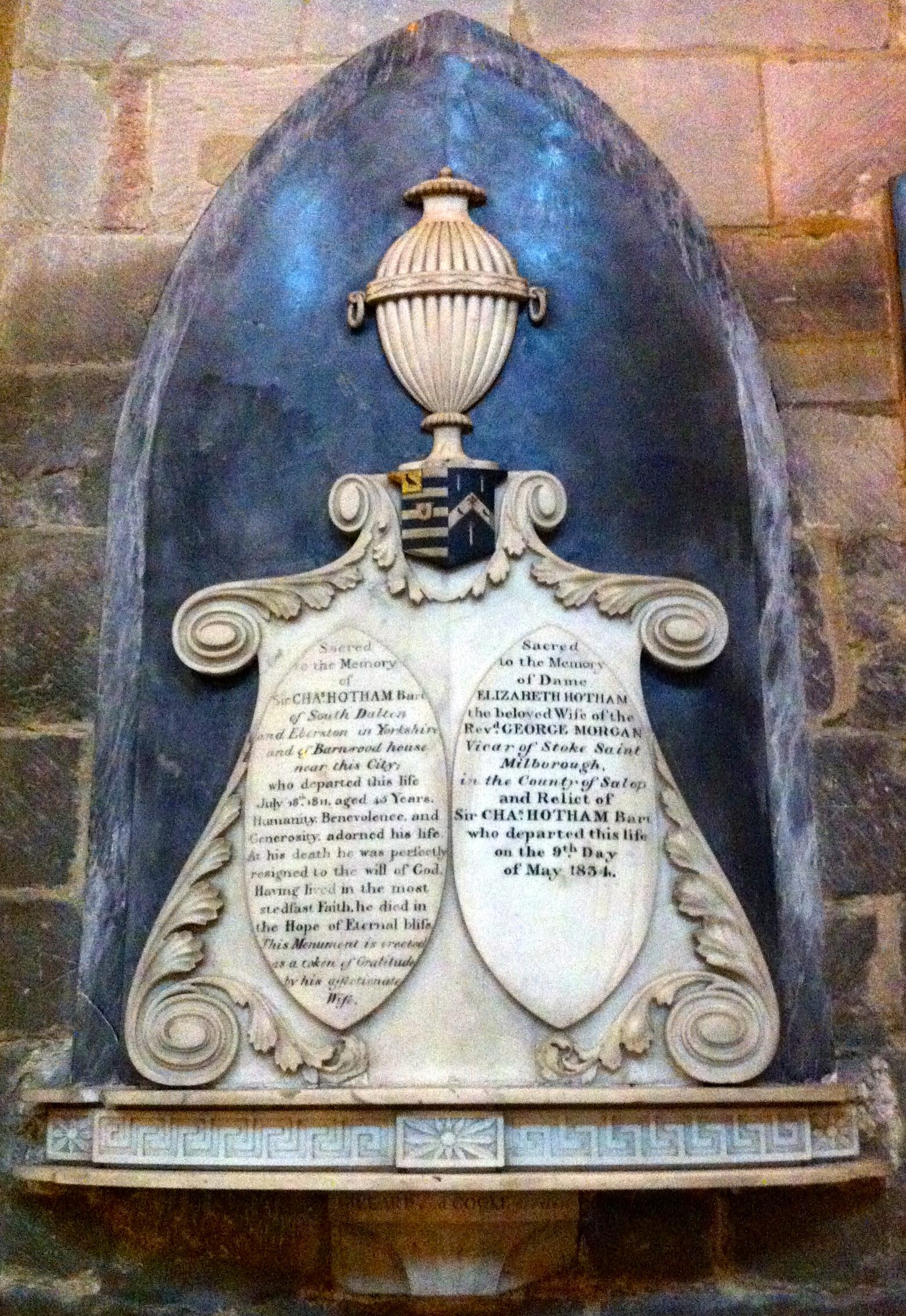 Sir Charles Hotham, 10th Baronet (1766–1811) "of Scorborough", and his wife, whom he married in 1804, Elizabeth, 4th daughter of Owen-Meyrick Meyrick, co. Caermarthen (The Peerage of the United Kingdom of Great Britain & Ireland, Volume 1 By John Debrett[1])